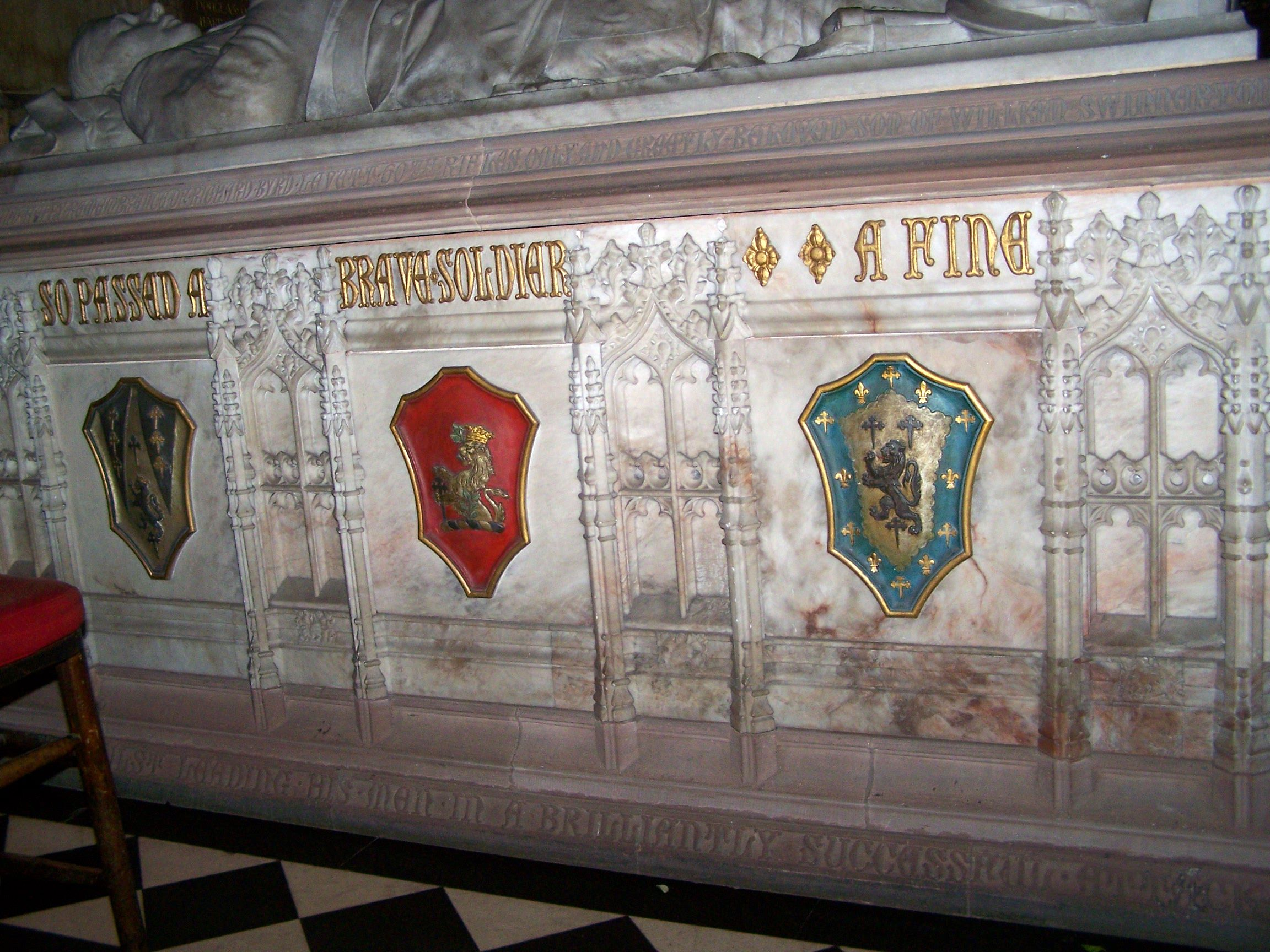 Tomb of Lt Richard Byrd Levett, Church of St Thomas, Walton-on-the-Hill, Staffordshire. Lt Levett, son of William Swynnerton Byrd Levett and his wife Maud (Levett) Levett of Milford Hall, Staffordshire, was killed on the morning of 14 March 1917 at Irles, France, during the battle of the Somme (World War I).[1]